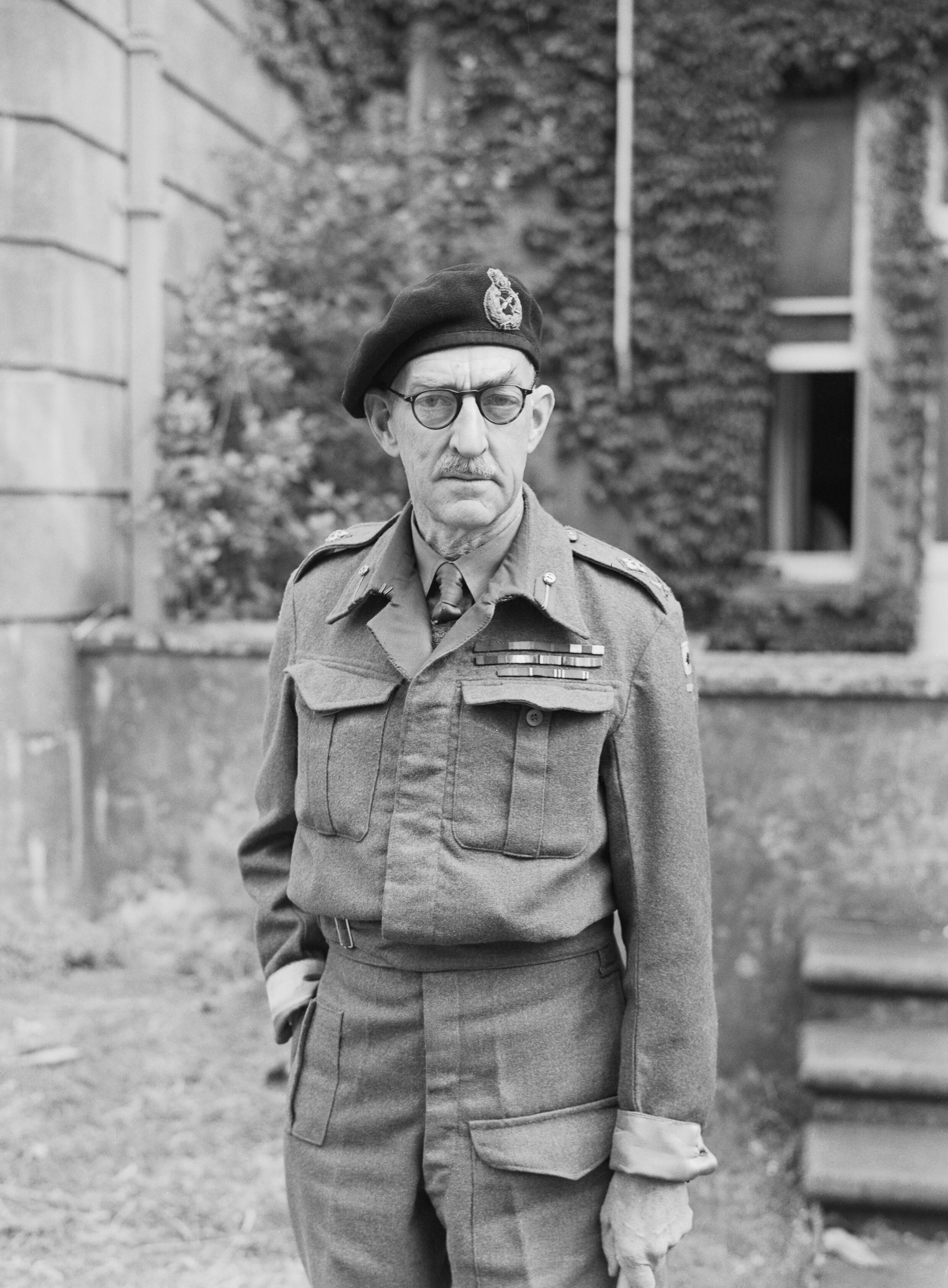 Major General Sir Percy Hobart, 16 June 1942. In March 1943 he was made responsible for the development of specialised armoured vehicles, known as 'funnies', to spearhead the D-Day assault. Major General Sir Percy Hobart, commander of 79th Armoured Division, who was made responsible in March 1943 for the development of specialised armoured vehicles, known as 'funnies', to spearhead the assault phase of the invasion.